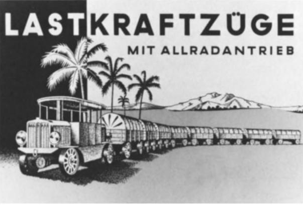 Advertisising of W. A. Th. Müller , Berlin, for "allradgetriebene Lastkraftzüge"